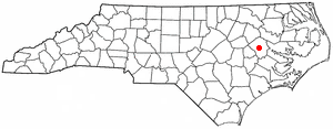 Category:North Carolina Dot Maps